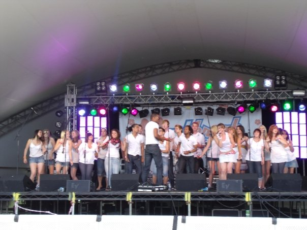 ACM Gospel Choir performing at Beach Break Live, 2009.